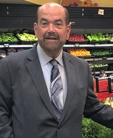 Photo provided by the office of U.S. Senator Debbie Stabenow.